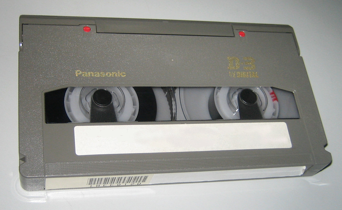 Panasonic D3-VTR Casette Tape for D3-VTR